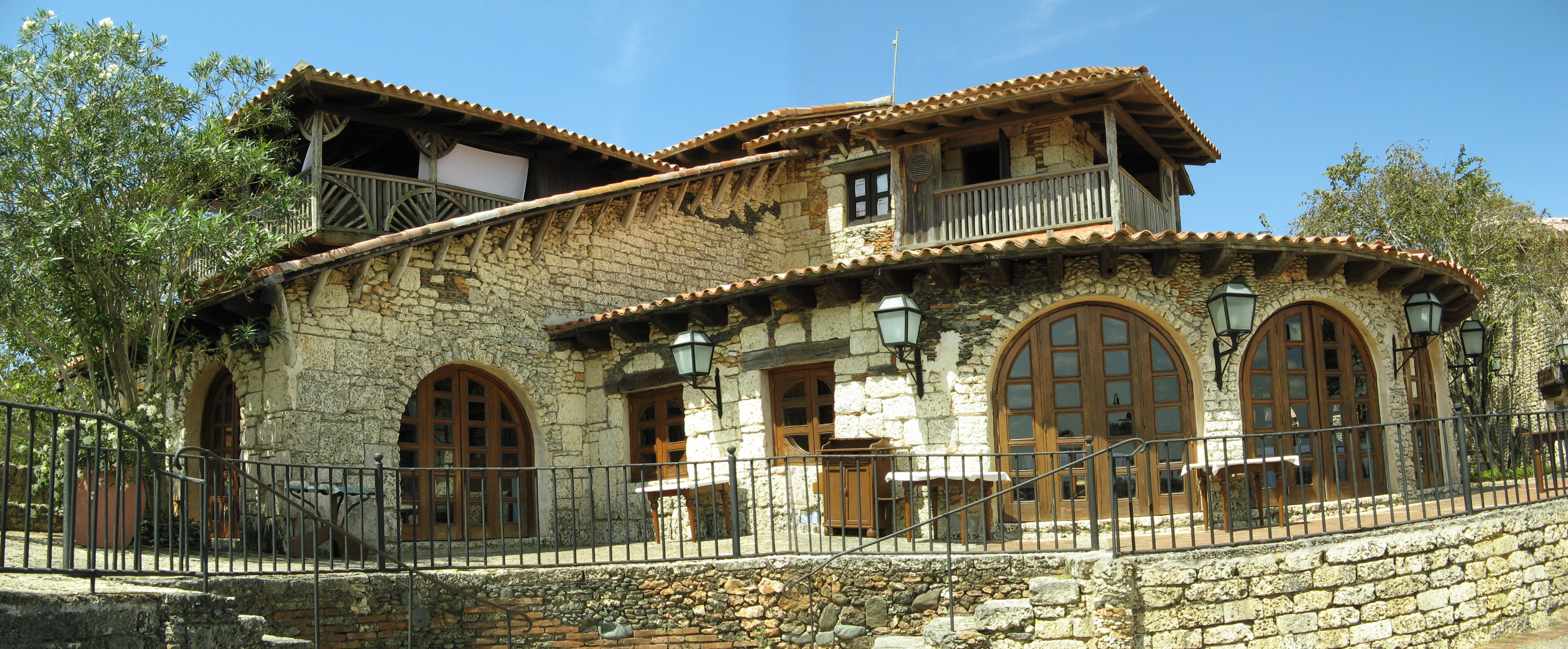 Nature of the Dominican Republic